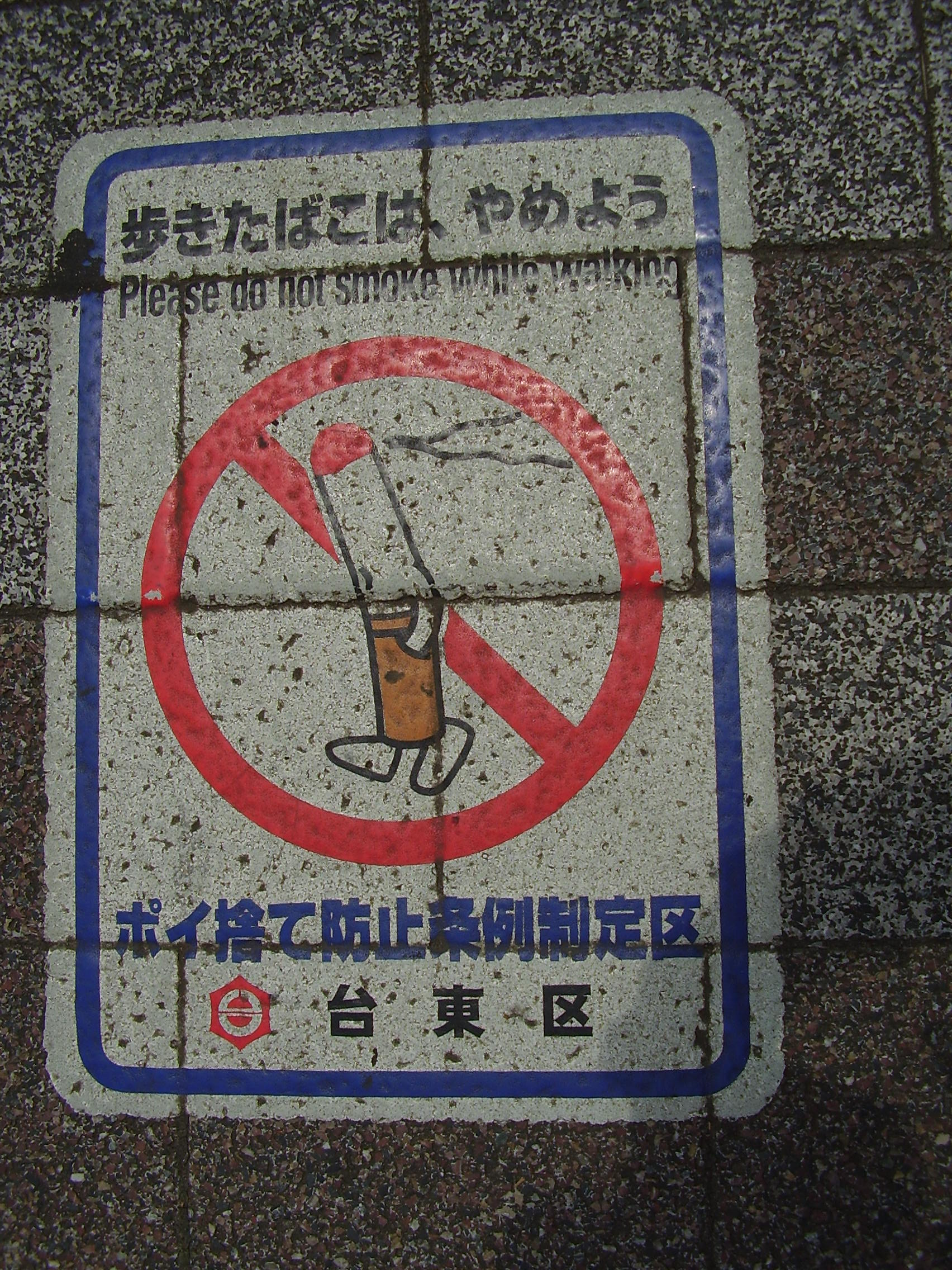 "Please do not smoke while walking" - Taito, Tokyo